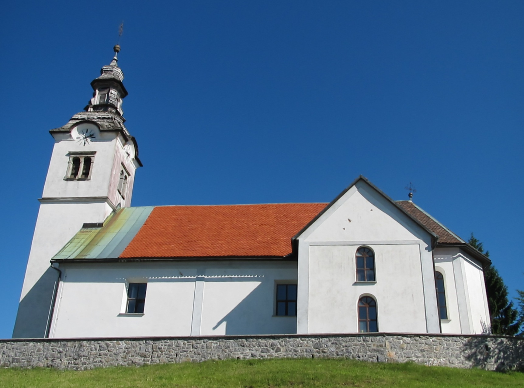 Three Kings Church in Vrh Svetih Treh Kraljev, Municipality of Logatec, Slovenia.